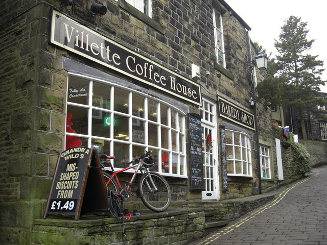 Cafe on Main Street Open every day except Christmas day.